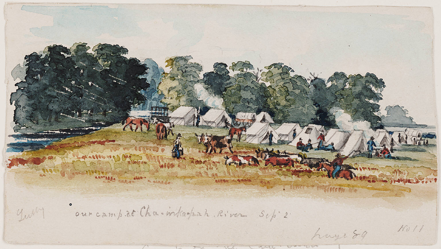 "Our Camp at Cha inka pah River," watercolor, by Alfred Sully, circa 1856. 8.6 cm. x 15.6 cm. Courtesy of the Yale Collection of Western Americana, Beinecke Rare Book & Manuscript Library.[1]